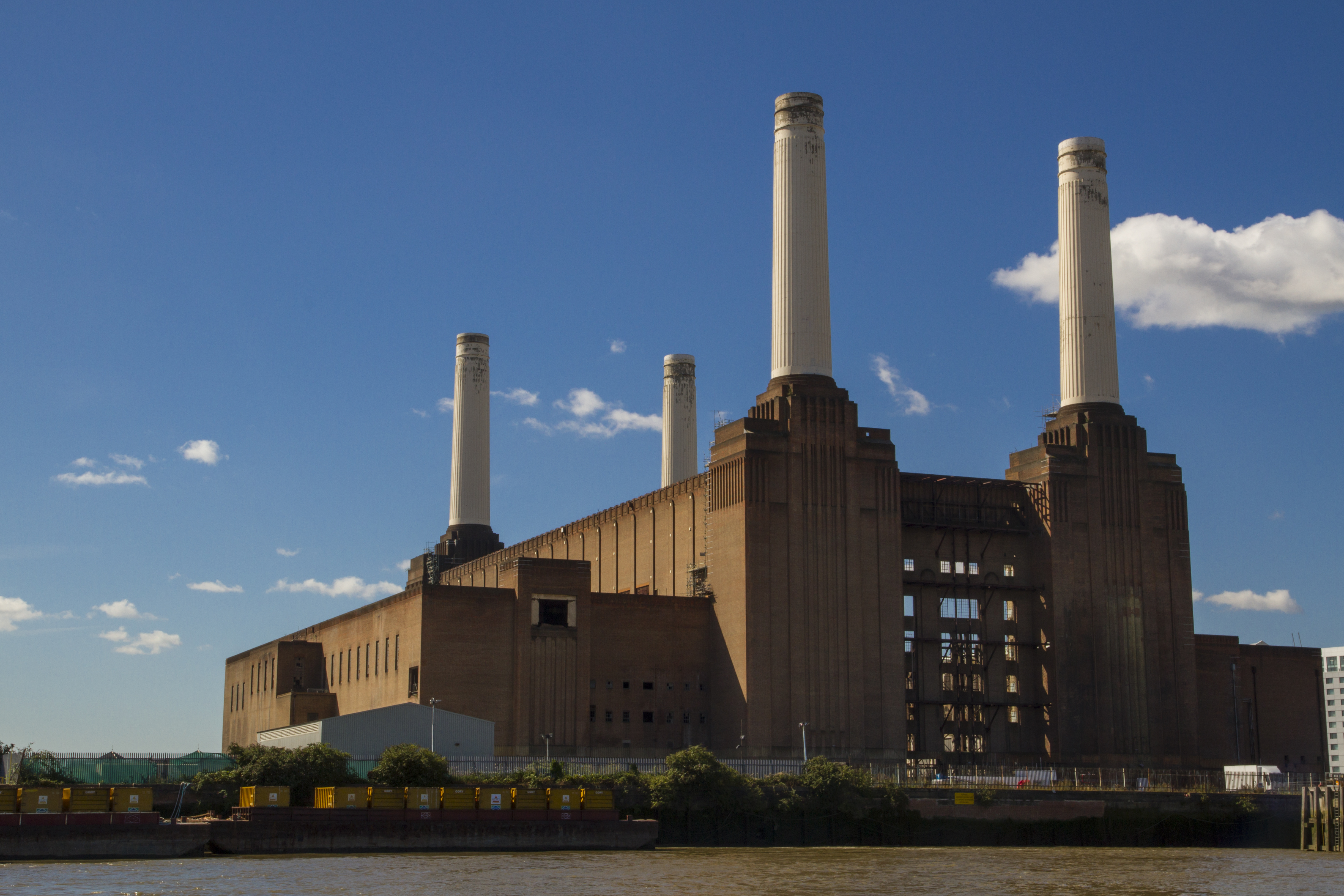 Battersea Power Station view from River Thames